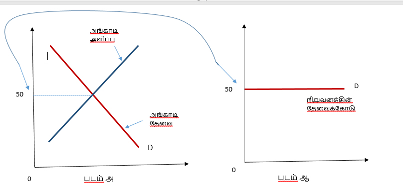 Demand curve of a firm in Perfect competetion